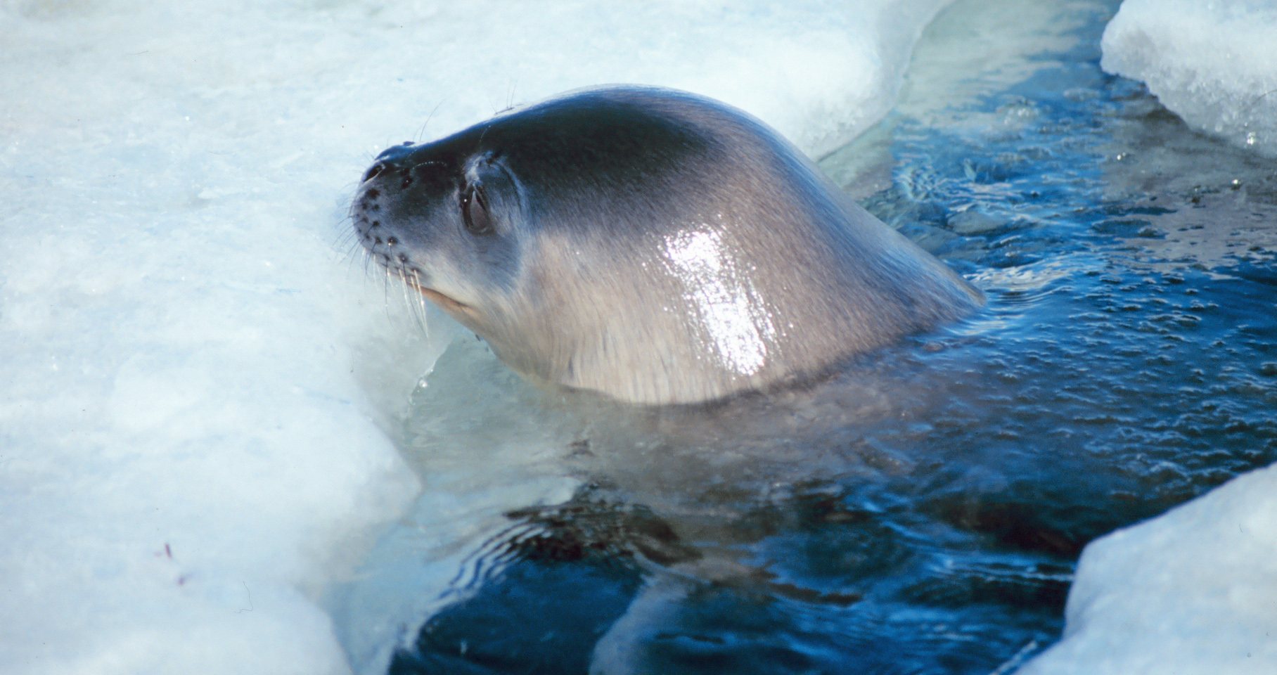 A Weddell Seal at a breathing hole Image ID: corp2418, NOAA's Ark - Animals Collection Photographer: Giuseppe Zibordi Credit: Michael Van Woert, NOAA NESDIS, ORA Source:NOAA Photo Library